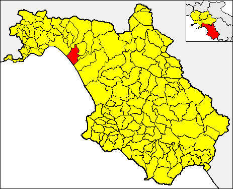 Locator map of the municipality of Pontecagnano Faiano (red) within the Province of Salerno